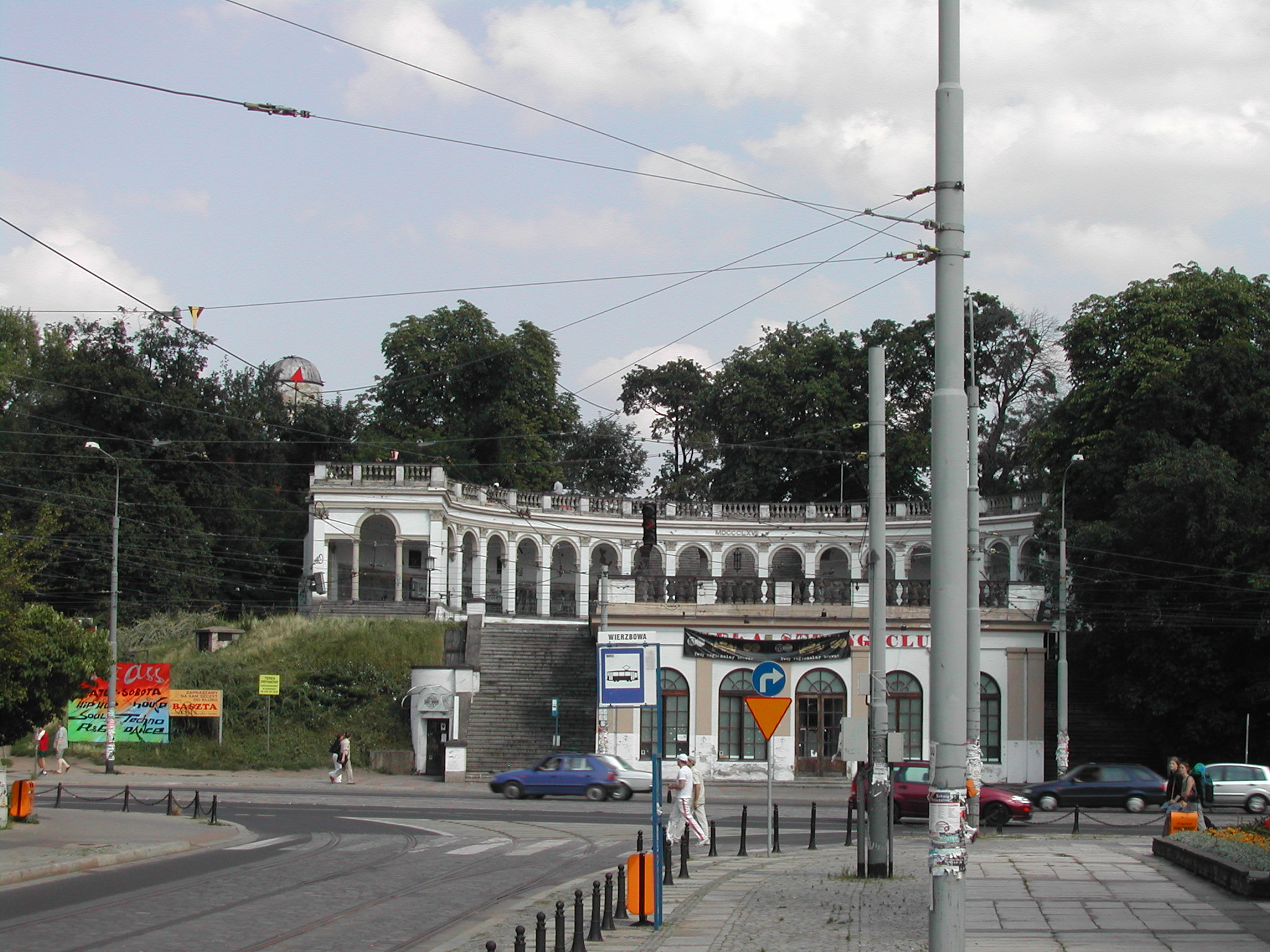 Partisans' Hill in Wrocław (streets crossing Piotra Skargi/Teatralna